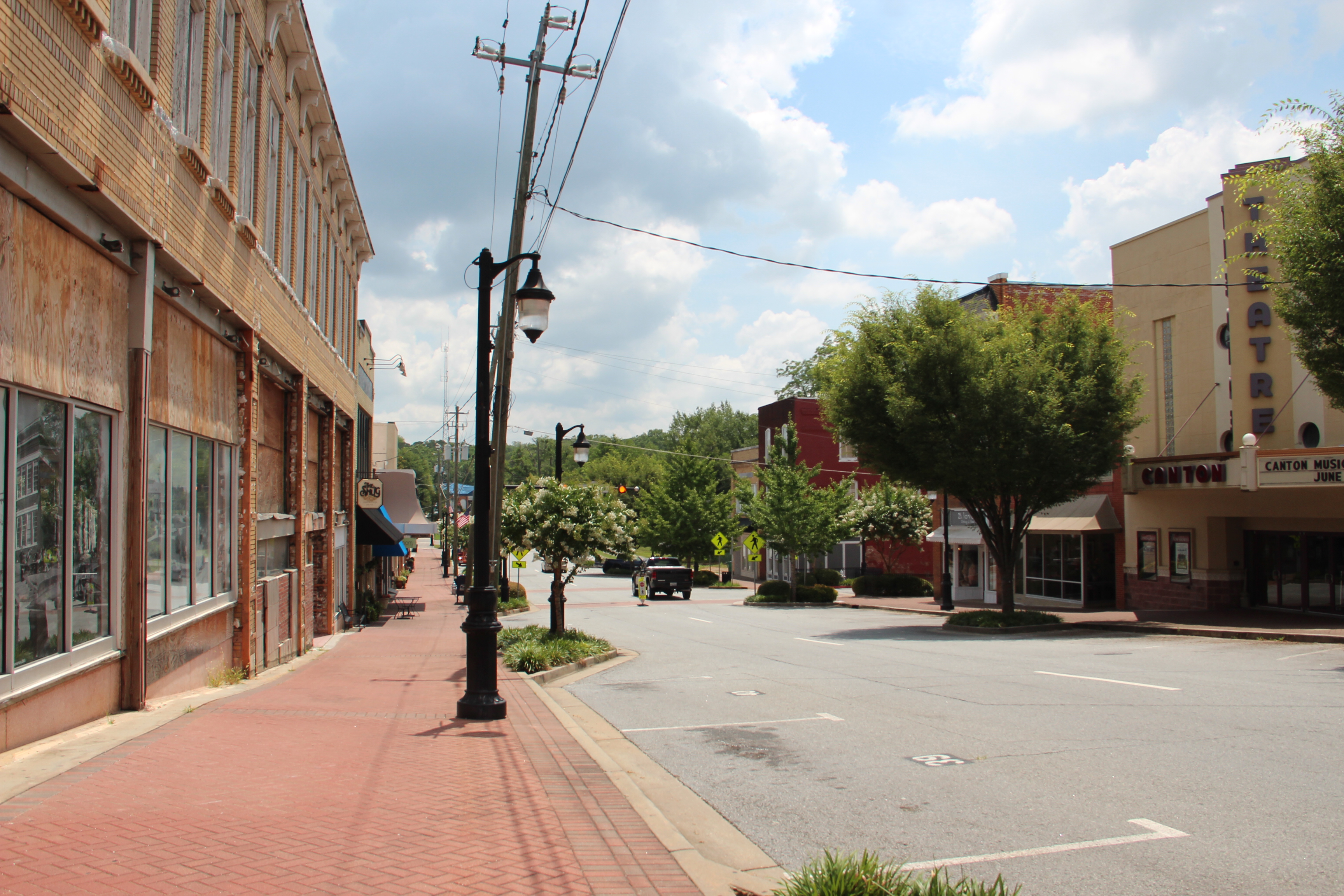 Downtown Canton